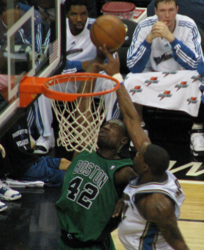 Celtics' Tony Allen (#42) attempts a shot and is fouled by Wizards' Antawn Jamison